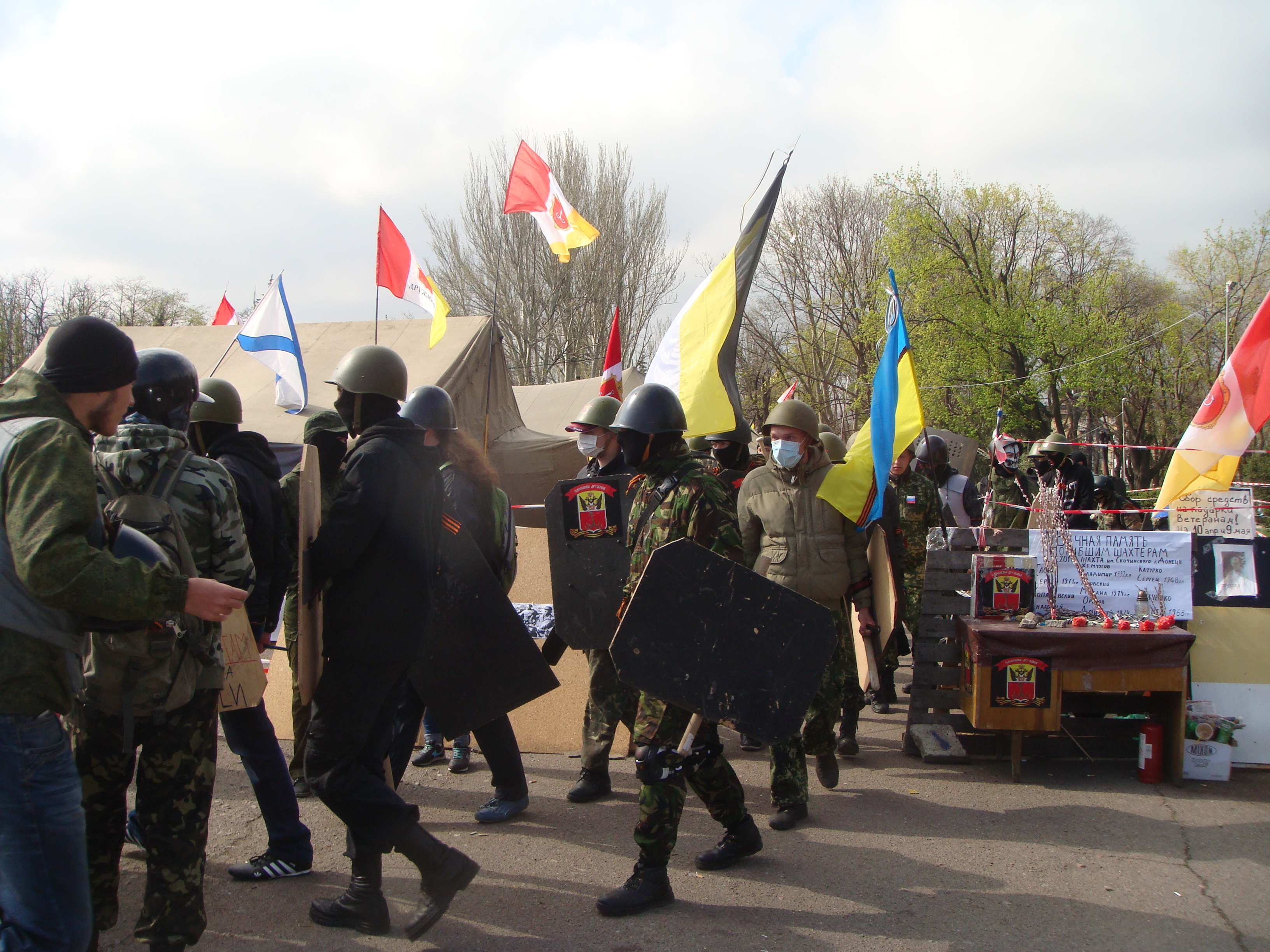 Pro-Russian meeting in Odessa on 2014-04-13. Camp of local militants - "Odesskaya Druzhina". Militants are rushing to take position at outer boarder of the meeting place to protect protesters in case of any unfriendly action of opponents.